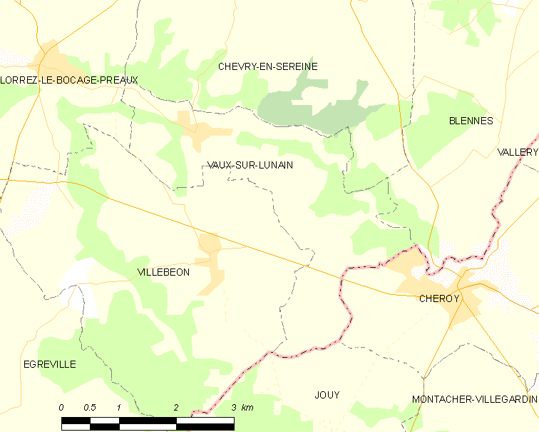 Map of French municipality Vaux-sur-Lunain